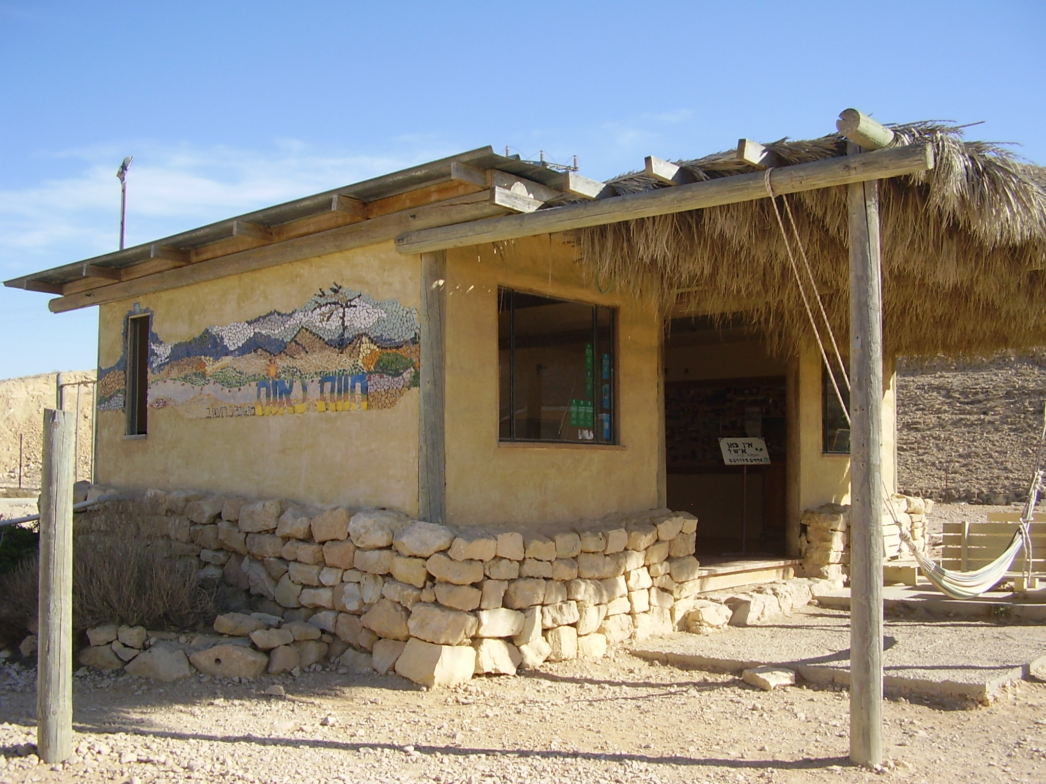 naot farm in the negev